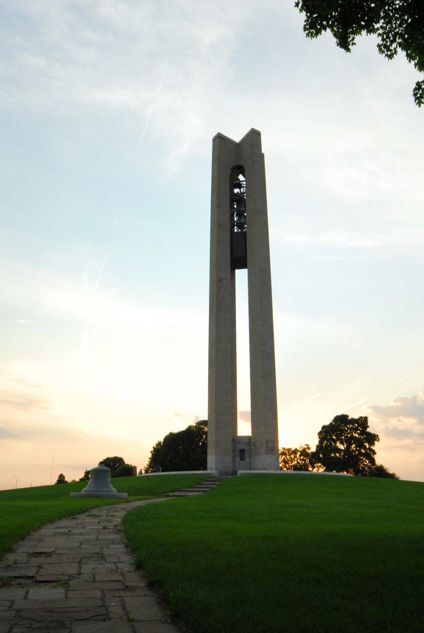 A photo of Deed's Carillon in Dayton, Ohio.